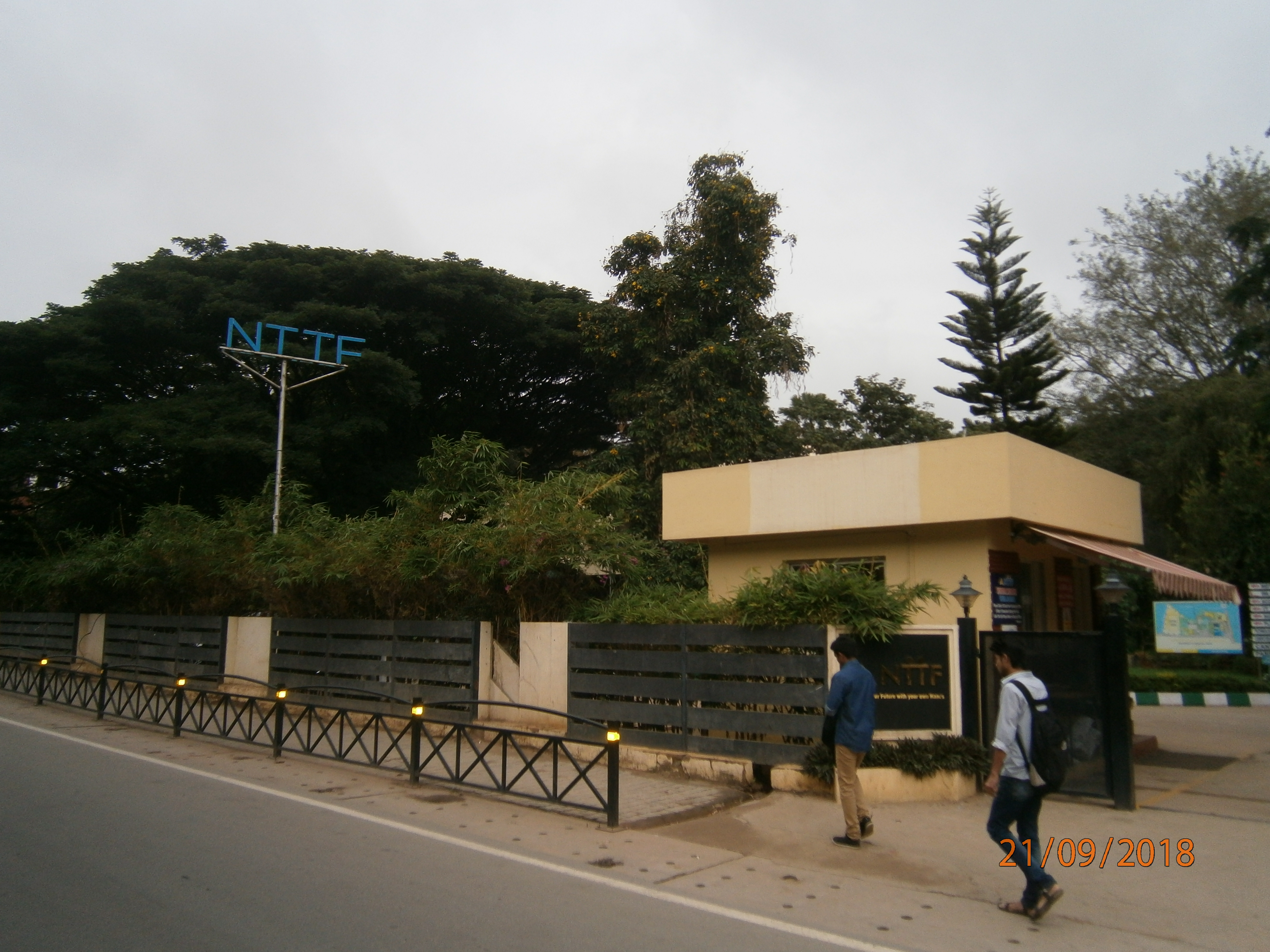 என்டிடிஎஃப் டிரைனிங் செண்டர், எலக்ட்ரானிக் சிட்டி பெங்களூர் (கர்நாடகம்)